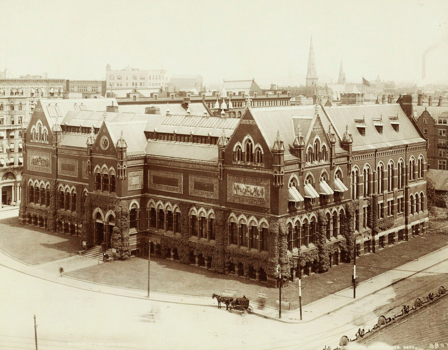 Museum of Fine Arts, Copley Square, Boston. Built 1876, demolished 1911.